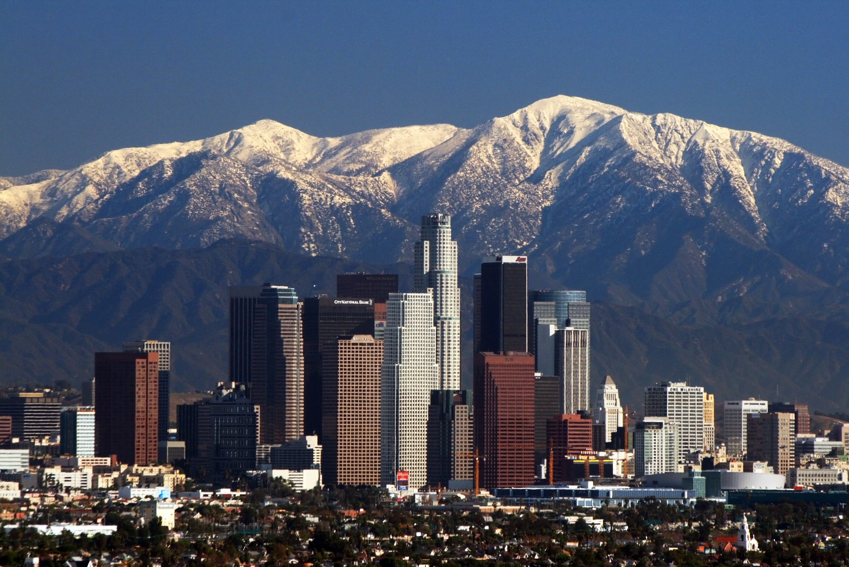 Los Angeles skyline and San Gabriel mountains.